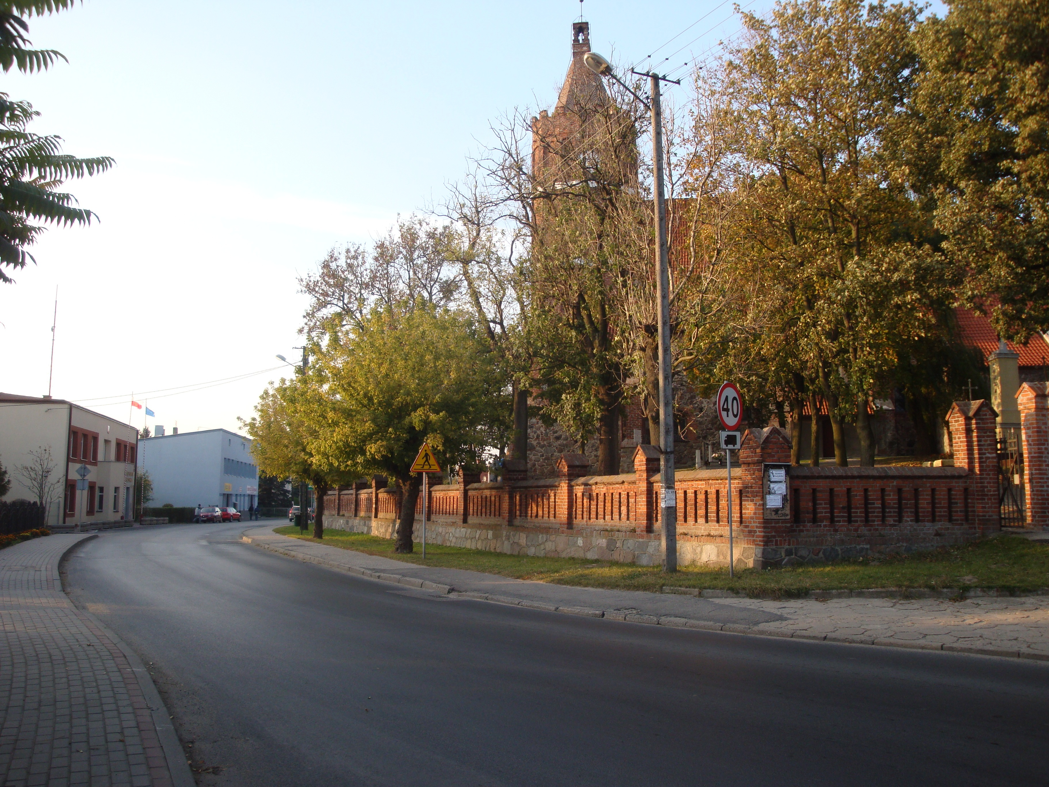 Lisewo- village in powiat chełmiński, Poland.